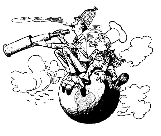 Caricatures of L. Frank Baum and Walt McDougall, from a cartoon announcing the new comic strip Queer Visitors from the Marvelous Land of Oz.